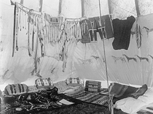 Inside the tipi, photograph by Richard Albert Throssel (1882-1933) taken in 1907